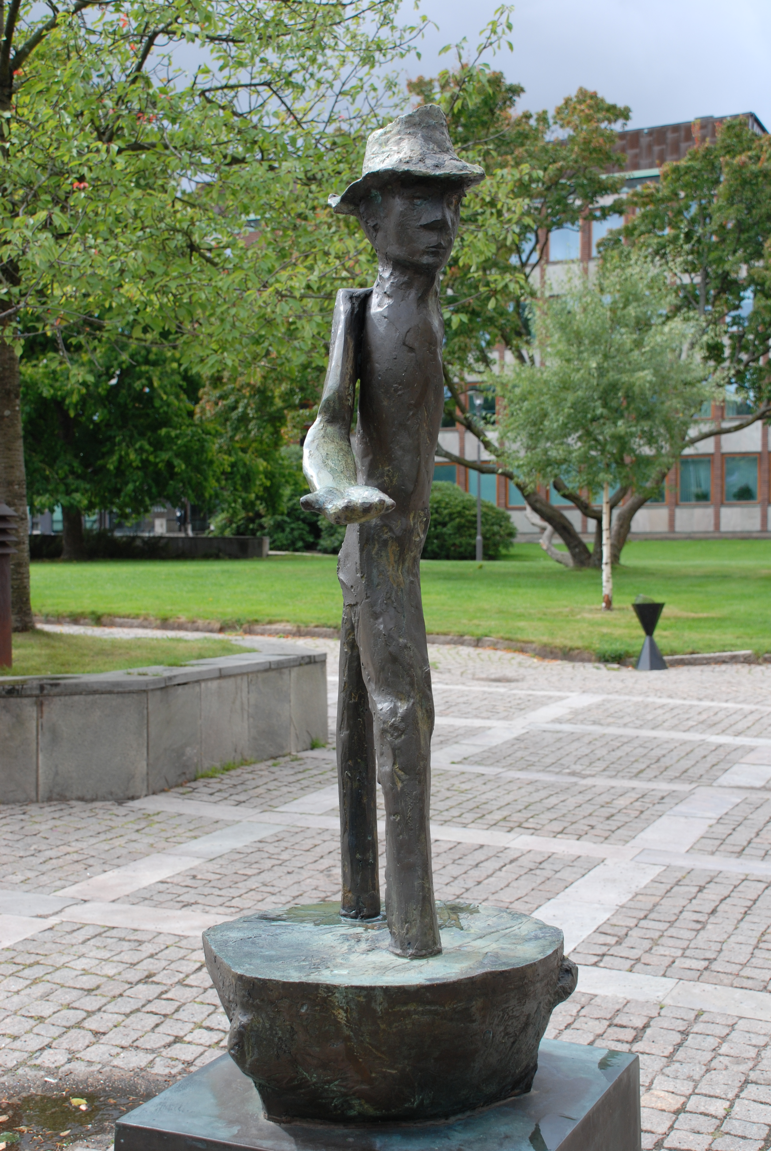 The sculpture Bolle by Graham Stacy at Stadshusplan in Mölndal. Created 1984.